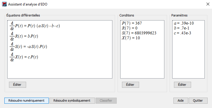 Analyse